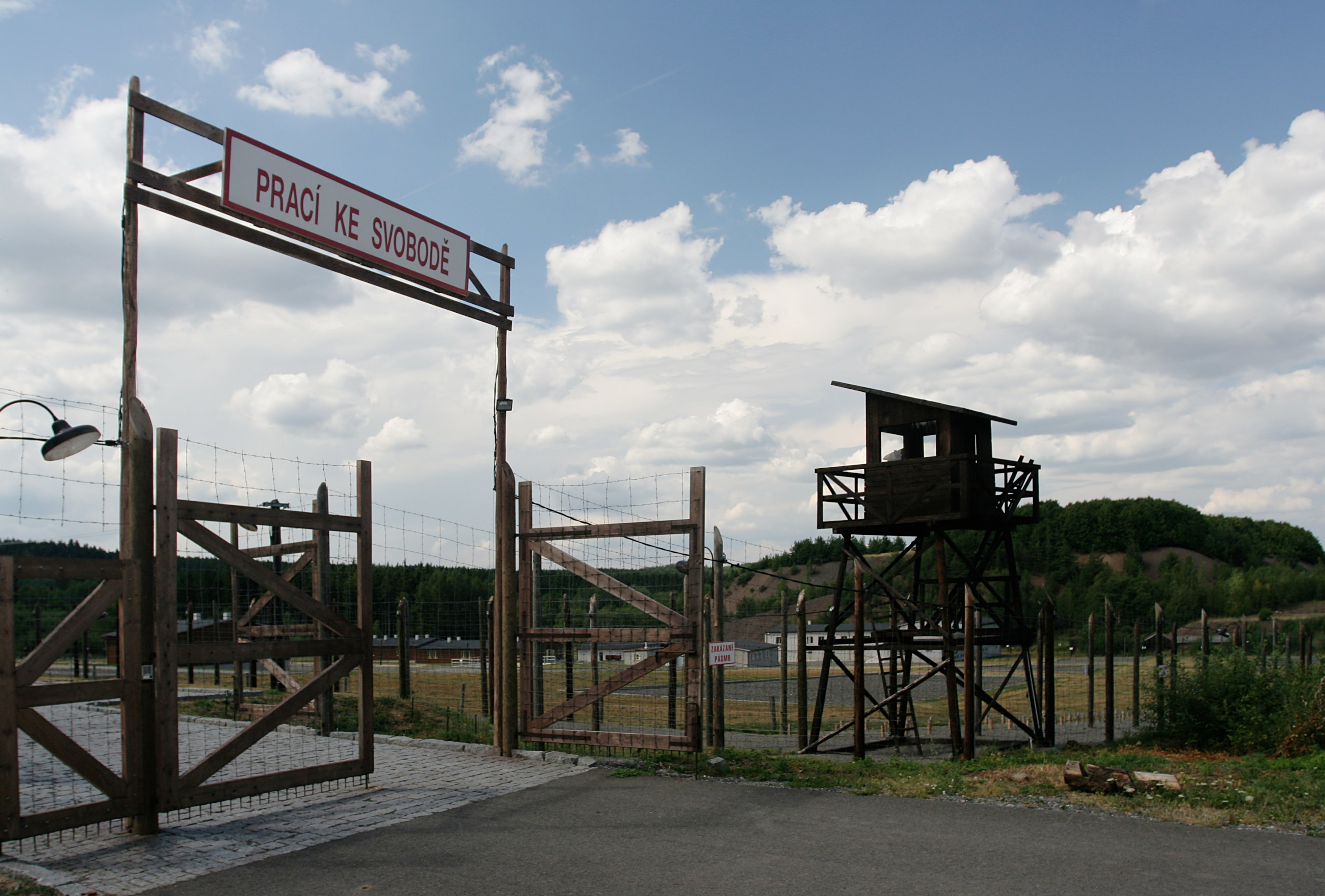 Vojna Memorial, in years 1947-49 camp for German prisoners of war, 1949-51 forced labour camp, 51-61 facility for political prisoners of communist regime; the sign says "freedom through work"